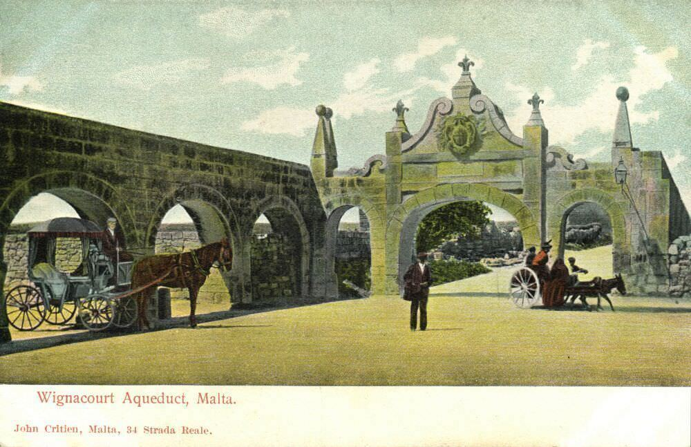 Wignacourt aqueduct postcard 1899